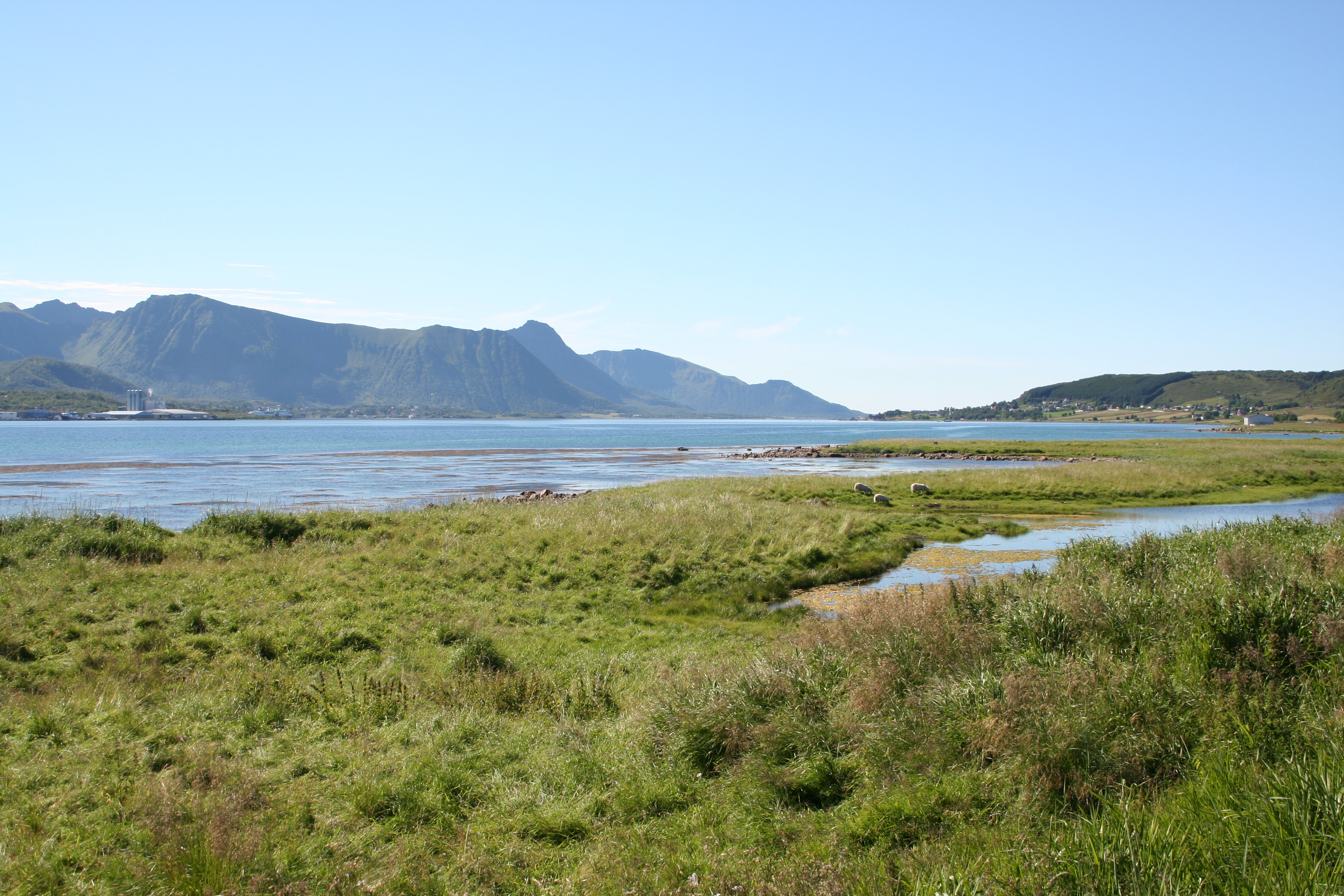 Langøysundet sound between islands Langøya and Hadseløya in Norway. This picture was taken by me on 27 July 2006.